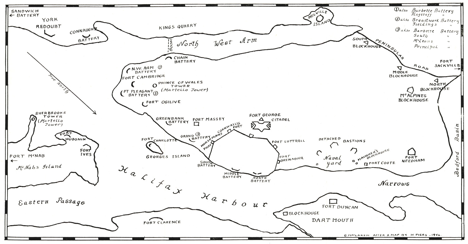 Harry Piers, The Evolution of the Halifax Fortress, 1749-1928. Line Drawing of principal forts, blockhouses, and batteries of Halifax's early defences.